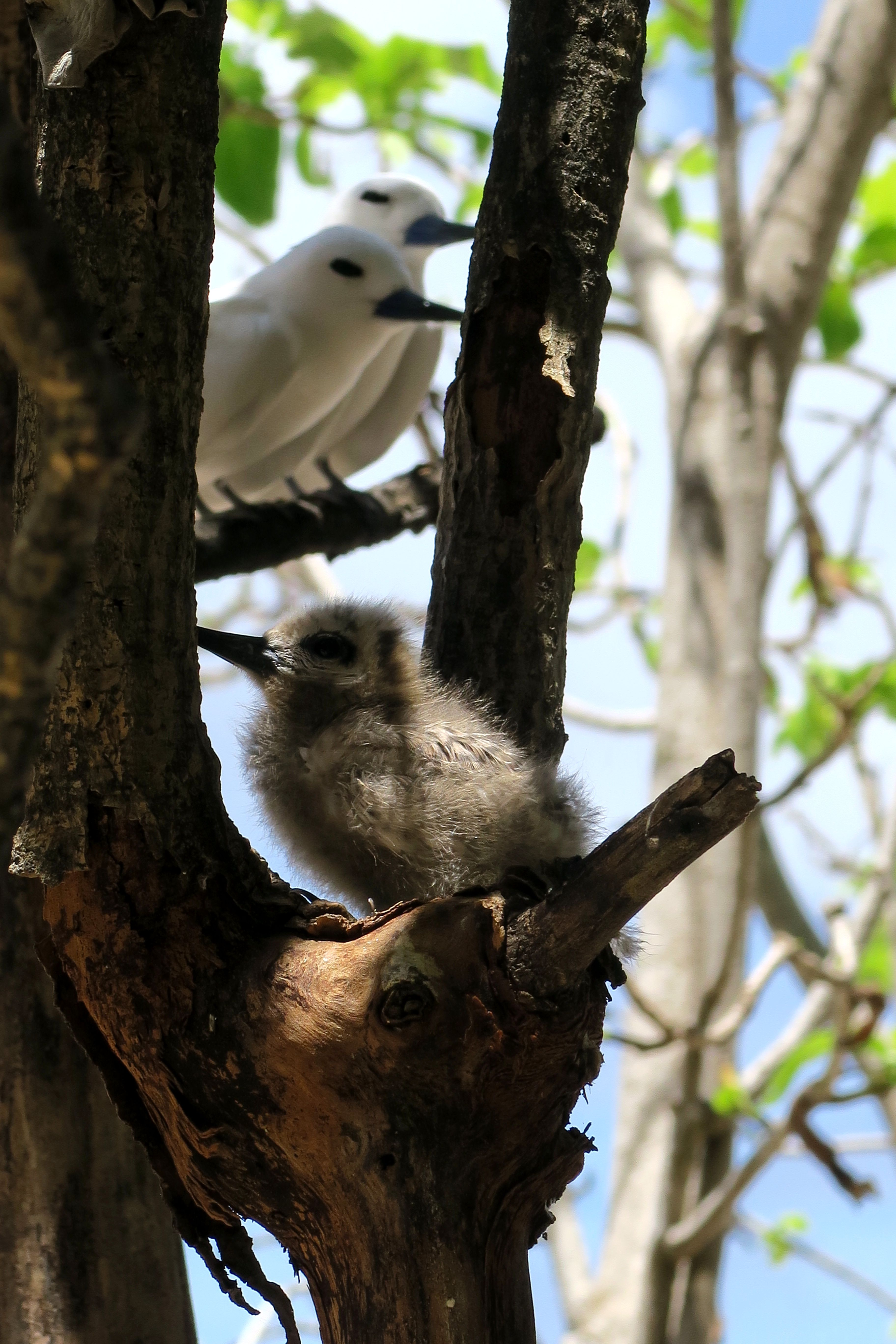 White tern parents near their chick, in Cousin Island, Seychelles.